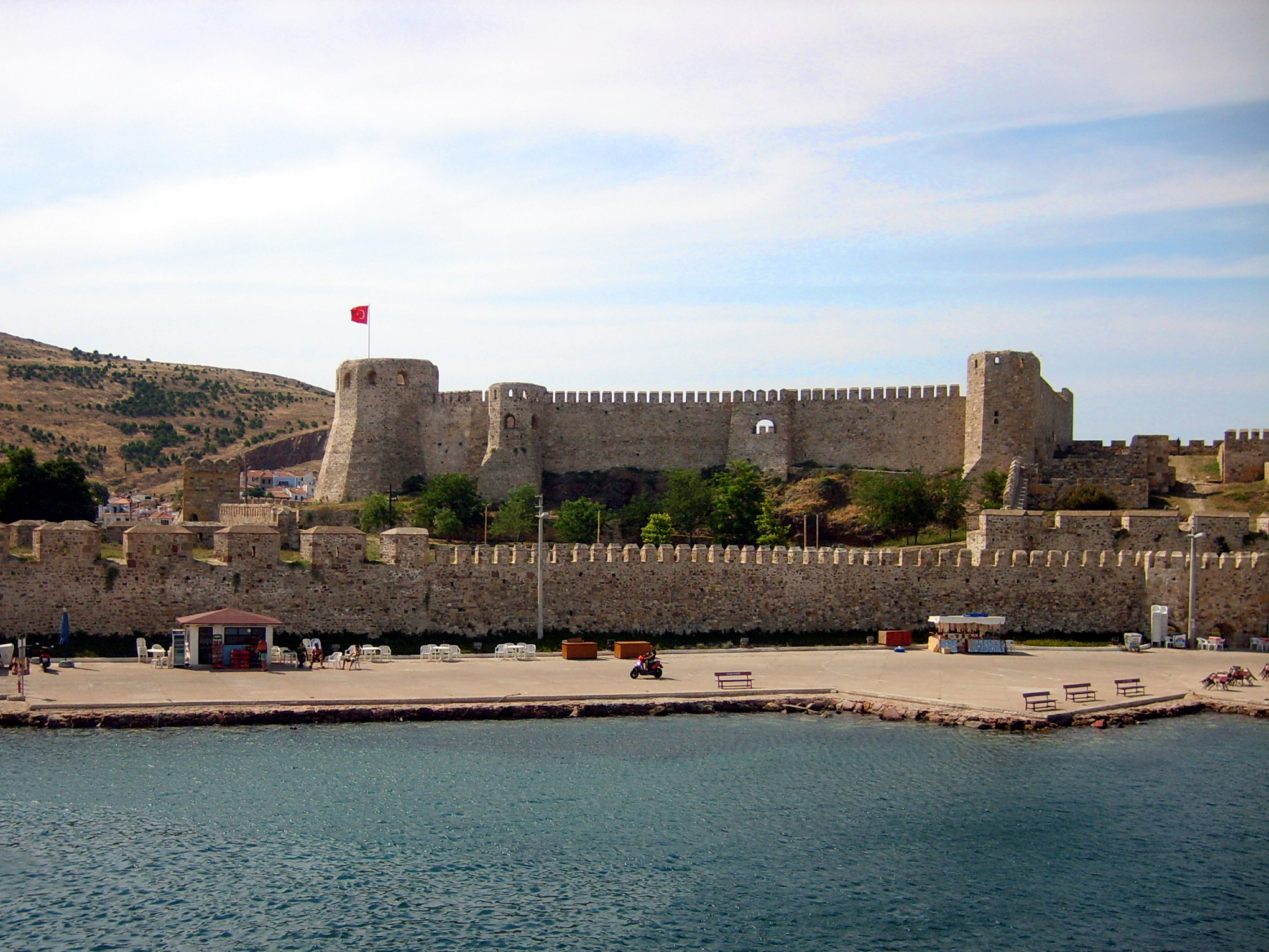 Citadel in Bozcaada island in Çanakkale Province